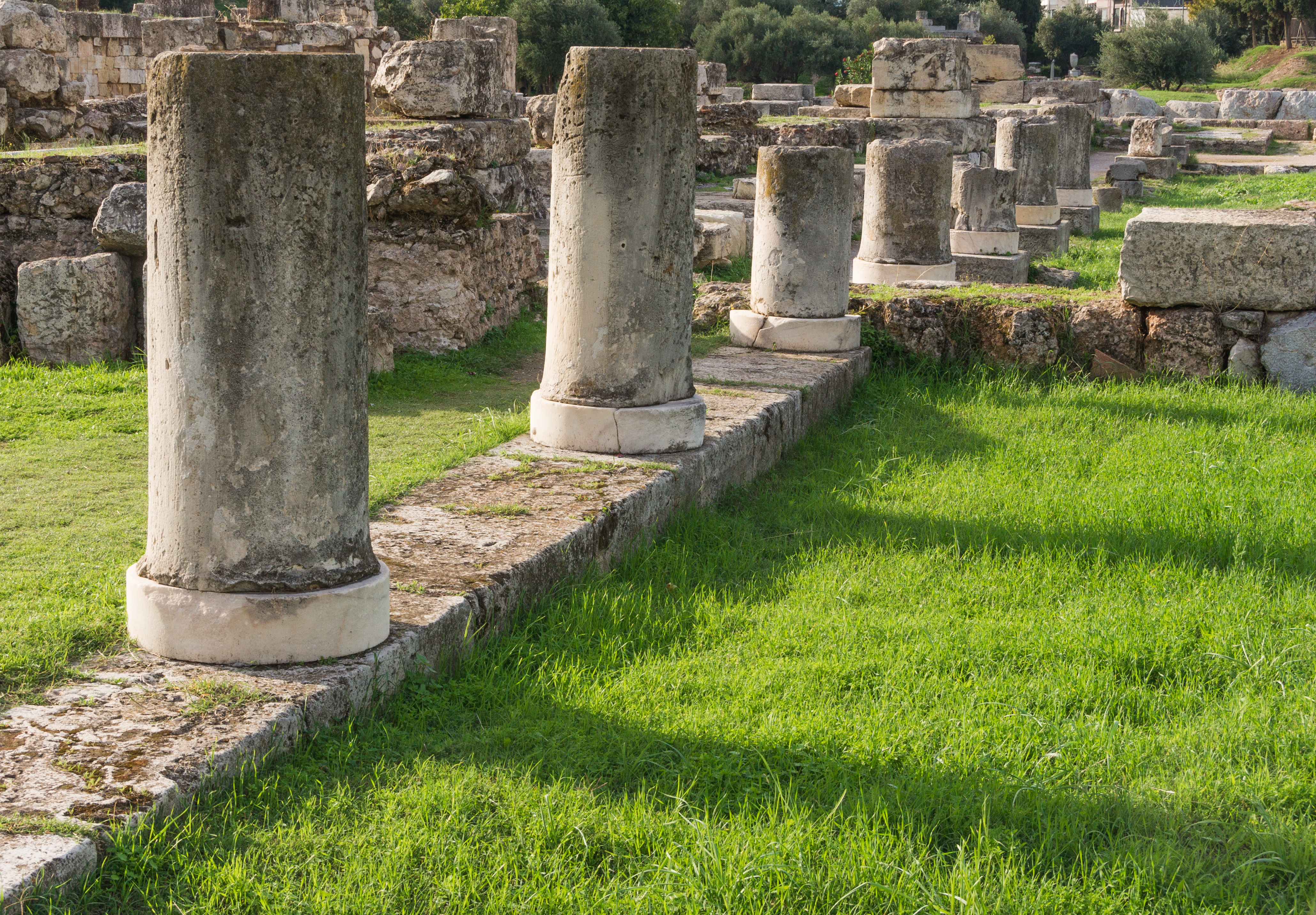 Columns of the Pompeion in the Kerameikos, Athens, Greece.